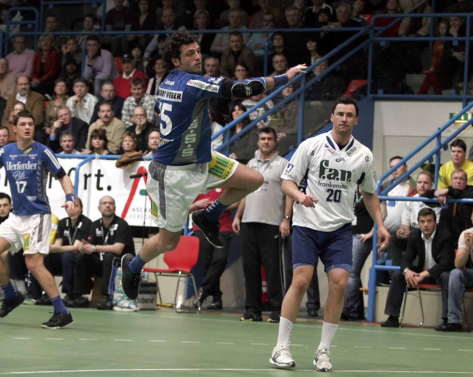 Florian Kehrmann, on March 24th 2007 in Aschaffenburg (Germany), during the game TV Grosswallstadt - TBV Lemgo (27:29)